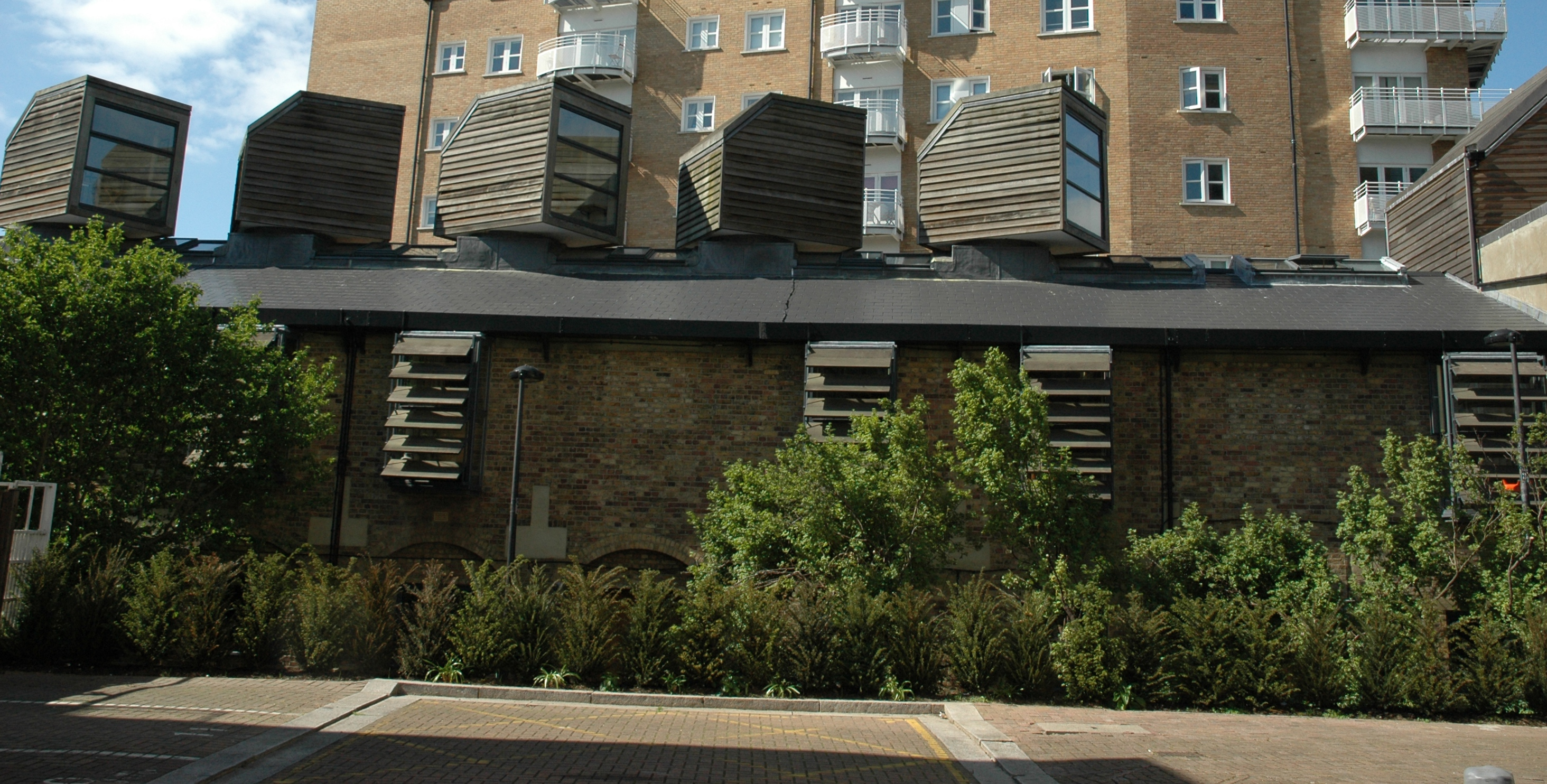 View of Odessa Wharf showing distinctive roof pods